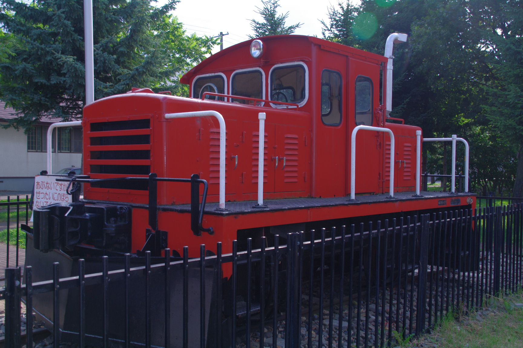 JNR type DB12 Diesel Switcher in Kitami city, Hokkaido.